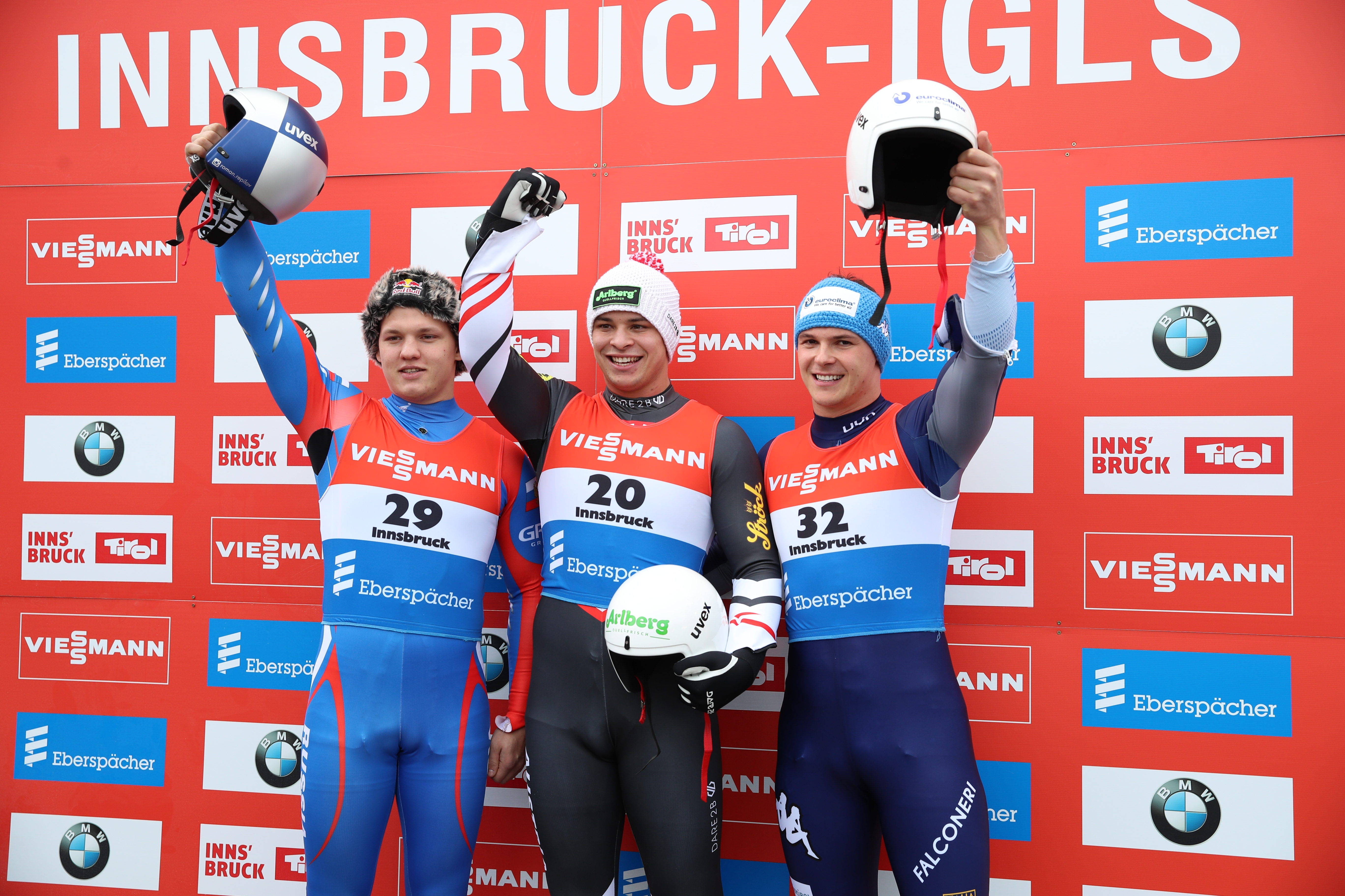 Men's World Cup race at the 2019/20 Luge World Cup in Innsbruck-Igls